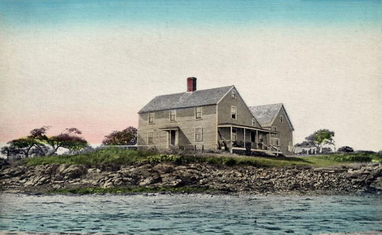 Tristram Goldthwaite House, Biddeford Pool, Maine. Built in 1713, it was first used as a trading station, and survived the French and Indian wars.